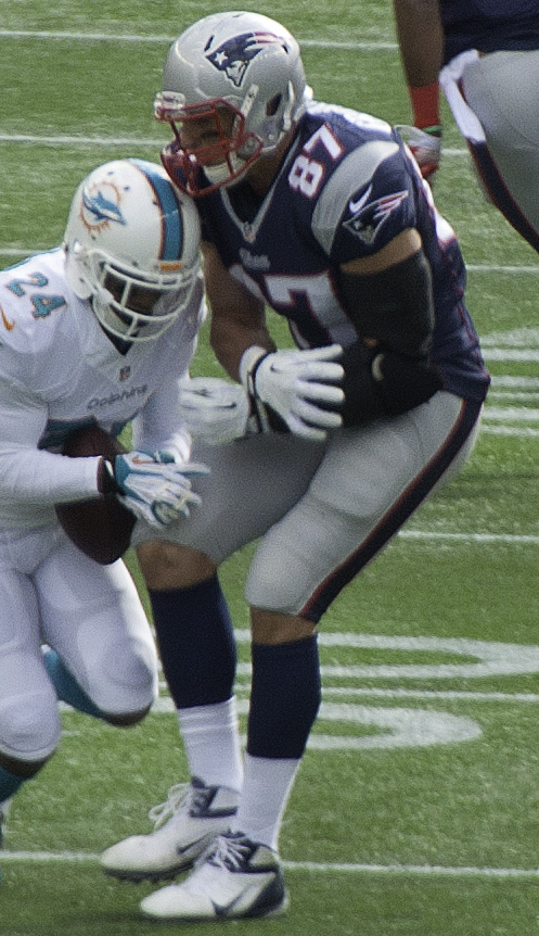 Dimitri Patterson intercepts a Tom Brady pass